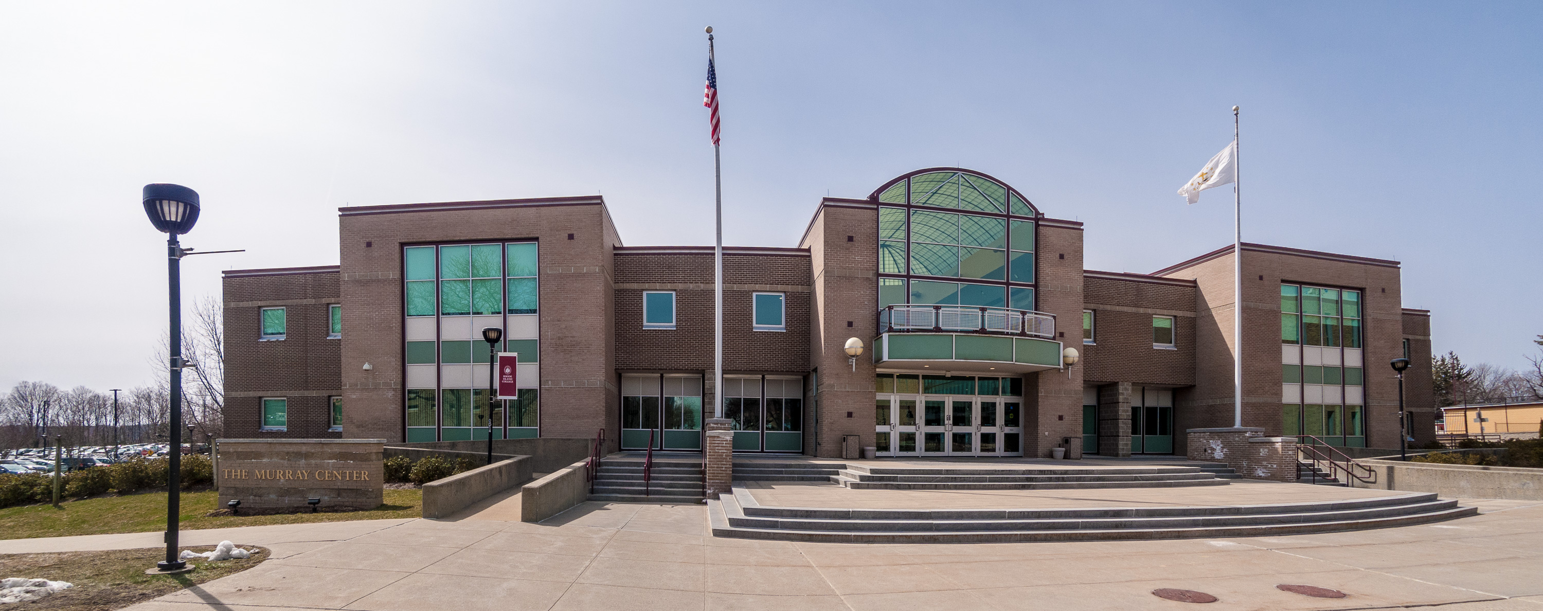 Rhode Island College, Providence RI